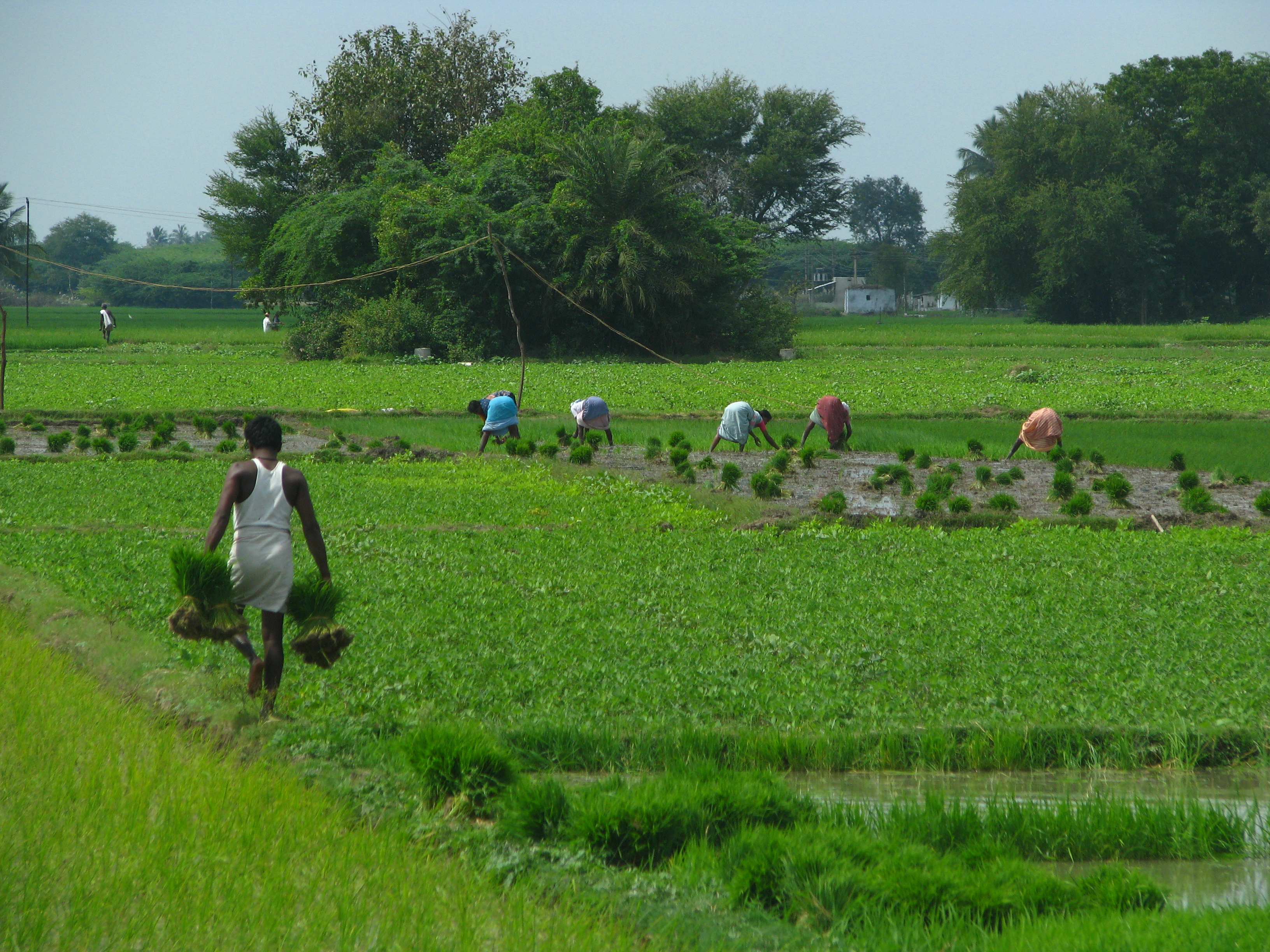 Rural villagers planting a new crop of rice paddy in the Kanchipuram district of Tamil Nadu, India. At this time, a month or so after the last of the monsoon rains, the area is very lush and fertile and beautiful. Agriculture is still a major activity in this area.